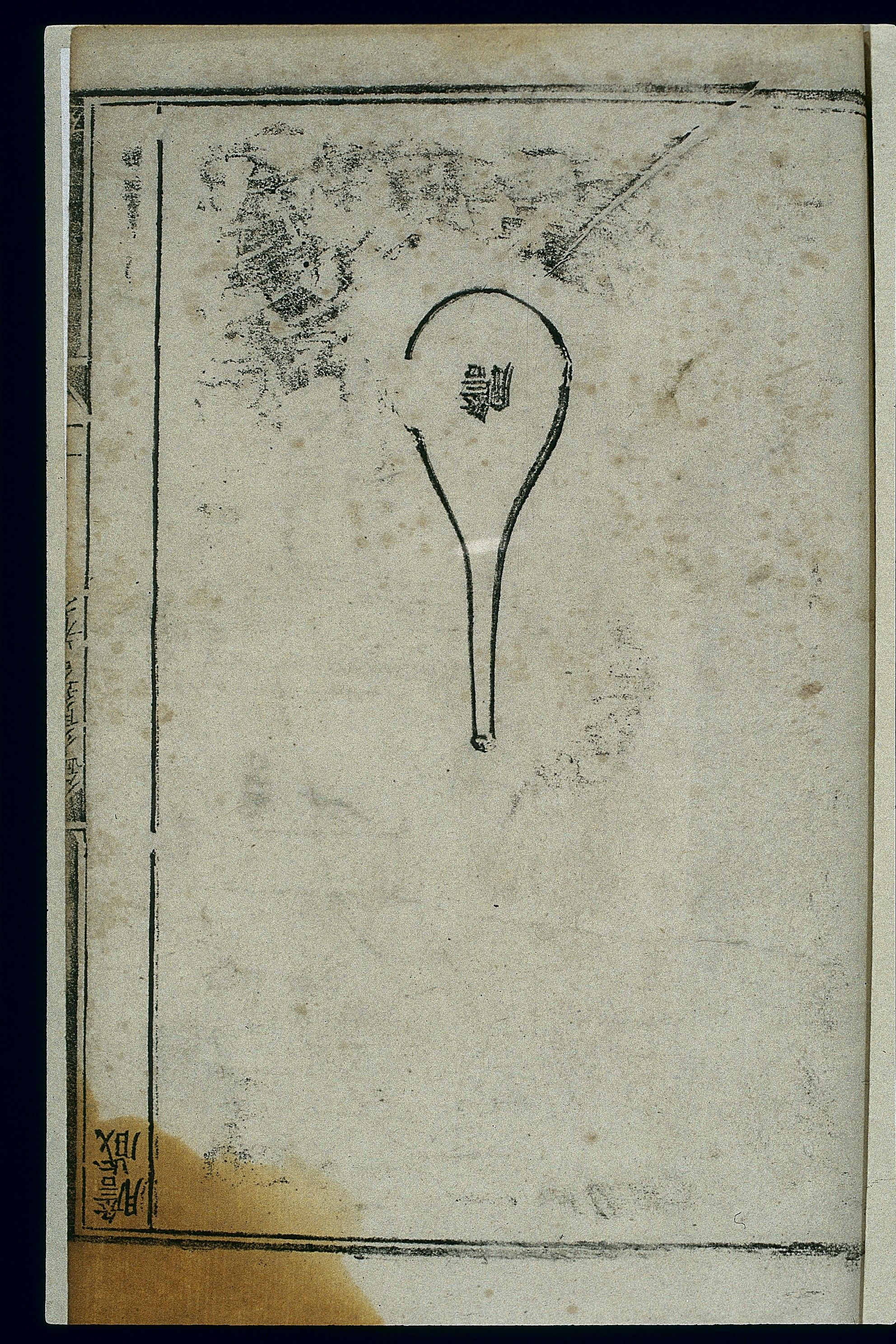 Woodcut illustration from an edition of 1537 (16th year of Jiajing reign period of Ming dynasty). The gall bladder is one of the sixfuviscera. Collected Gems of Acupuncture and Moxibustion, Vol. 2 states: 'The gall bladder weighs 3liang(Chinese oz., c. 50 gr) 3zhu(1zhu= 1/24liang), and measures 3cun(Chinese inches) in length. It is located under the smaller lobe of the liver. It contains 3ge(1ge= c. 1 decilitre) of refined juice' (jingzhi, i.e. bile)'. Wellcome Images Keywords: Anatomy; Gall bladder; Medicine, Chinese Traditional; Ming period (1368-1644); Ming Dynasty